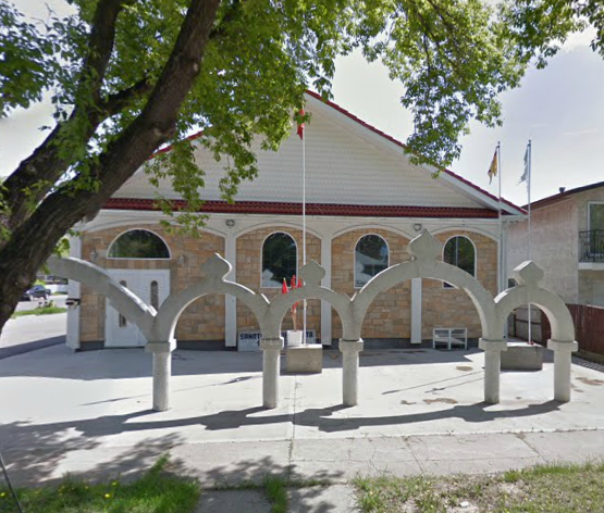 Front view of the Fiji Sanatan Society in Edmonton.